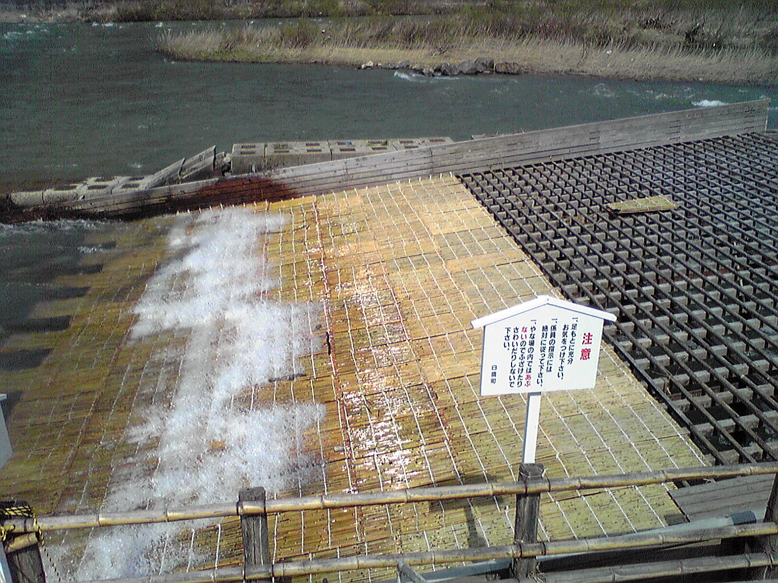 Fish trap installed on the Mogami River at Michinoeki Shirataka Yanakoen in Shirataka Town, Yamagata Prefecture, Japan